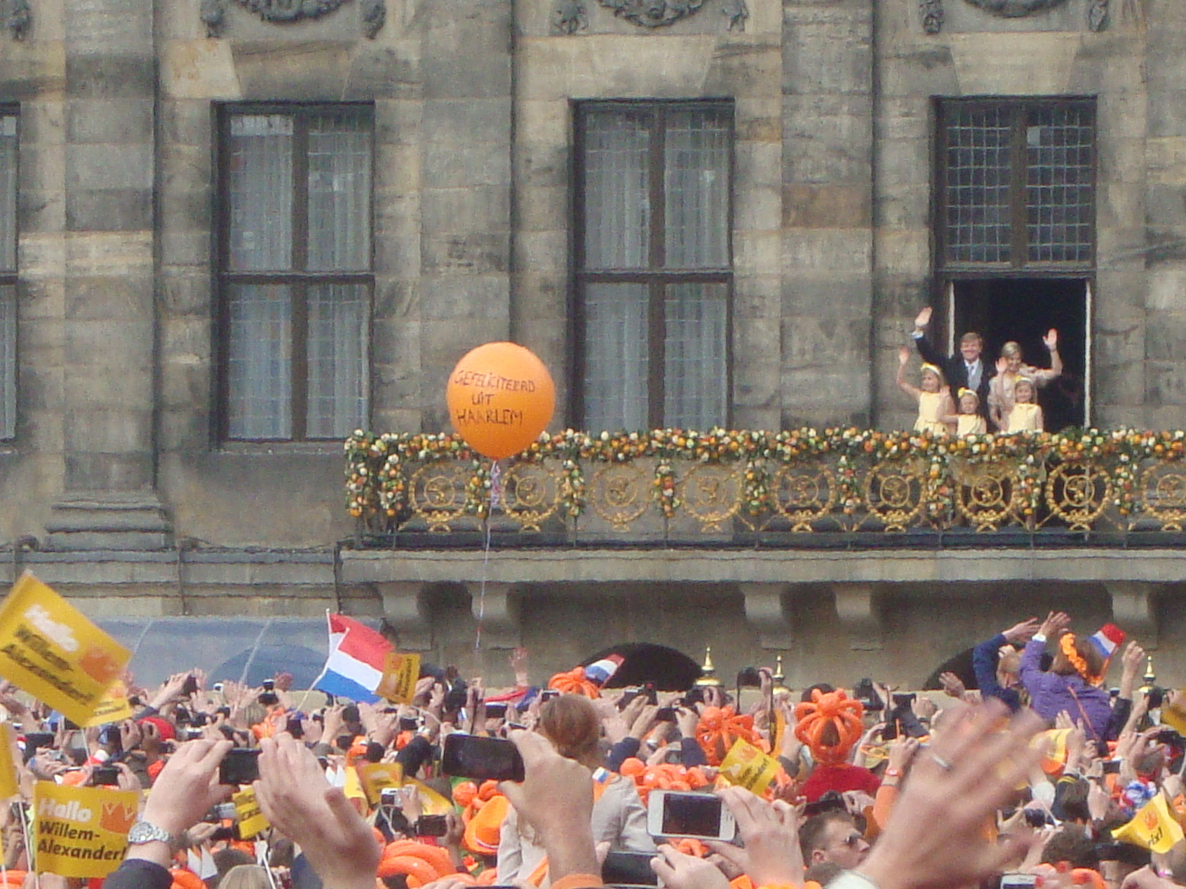 The new Dutch king, Willem Alexander, and his family, shortly after the abdication of his mother as queen of the Netherlands